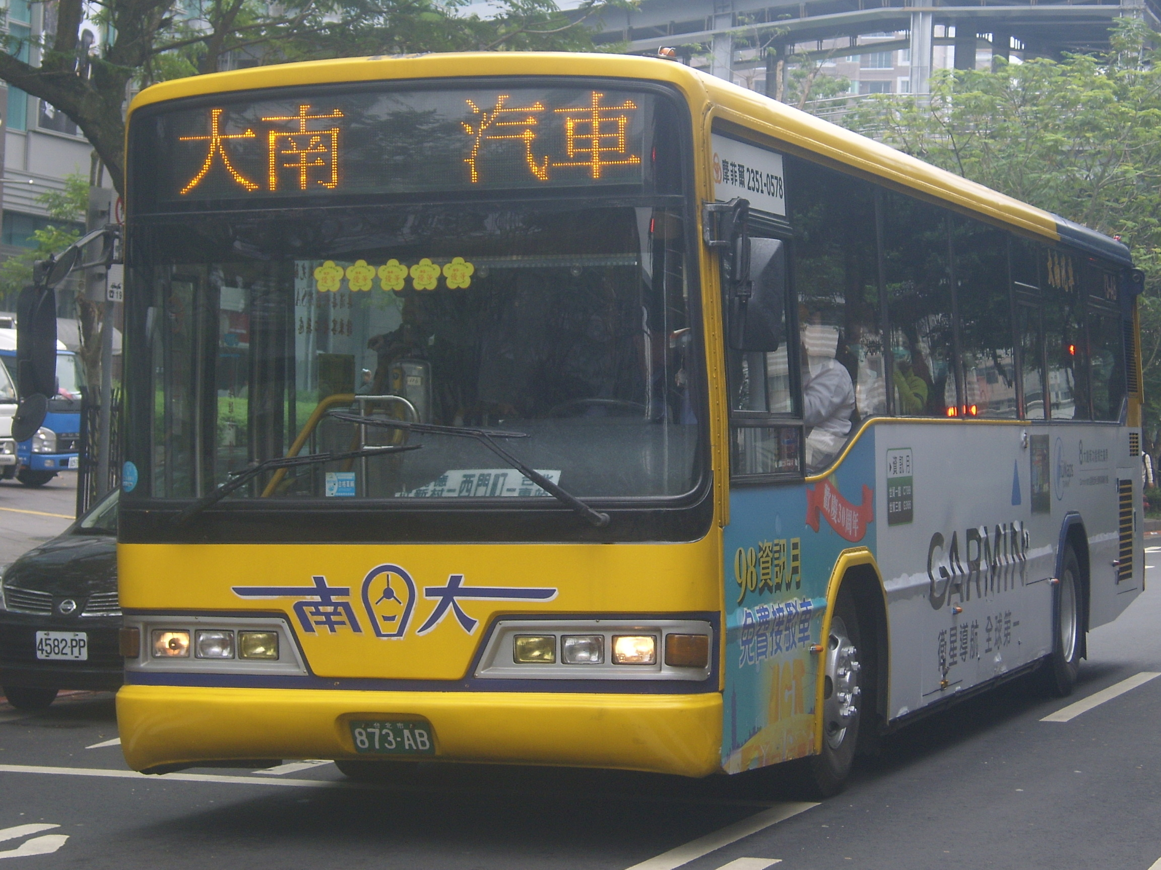 2009 Taipei IT Month: Official Shuttle Bus.